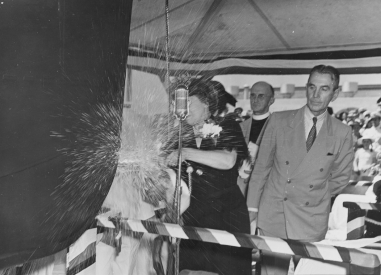 Is christened by Mrs. Richmond P. Hobson, at the Charleston Navy Yard, South Carolina, 8 September 1941. Looking on are Bishop Albert S. Thomas and The Honorable Joseph W. Powell.